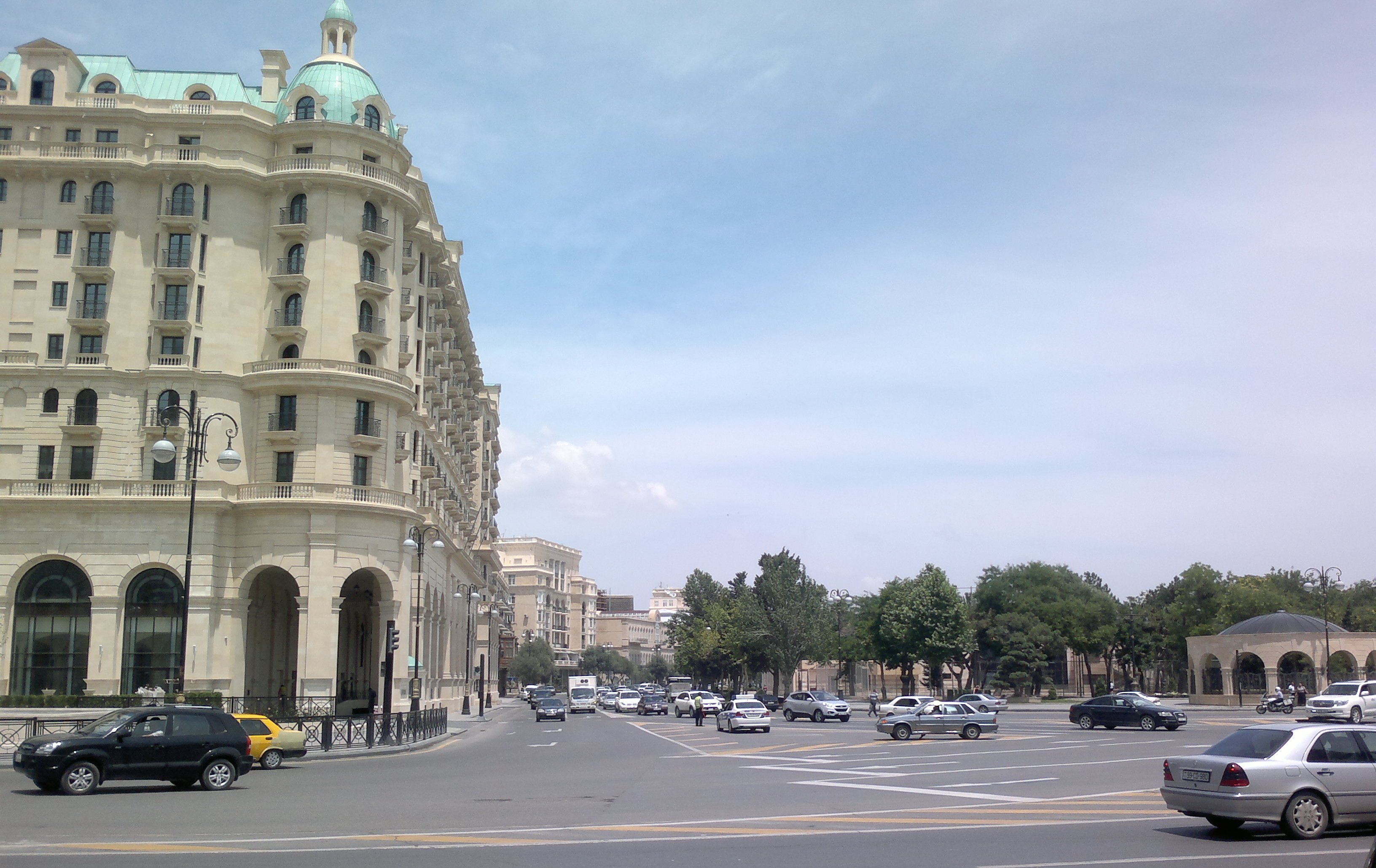 Neftchiler Avenue in Baku